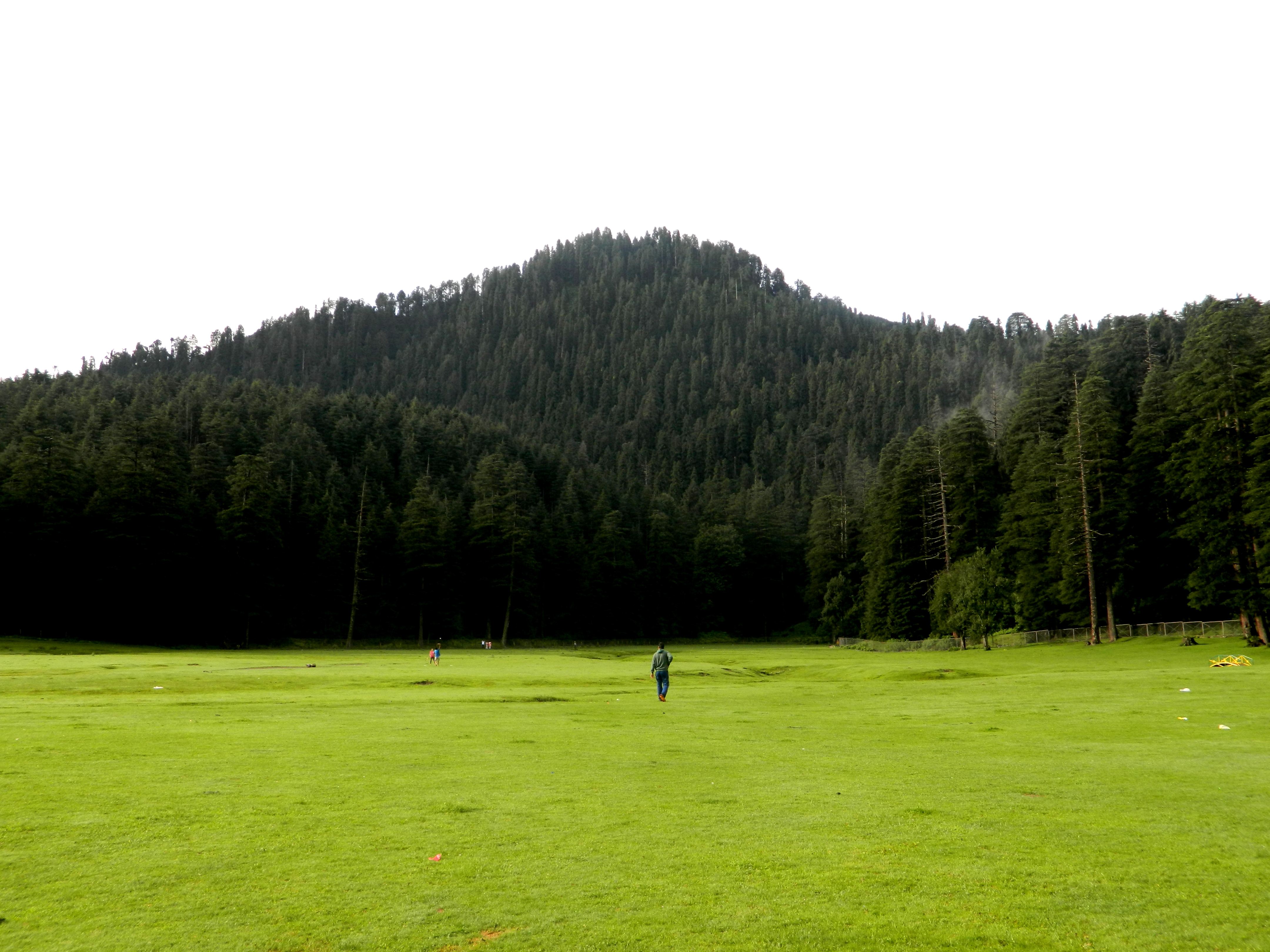 this is the khajjiar view .